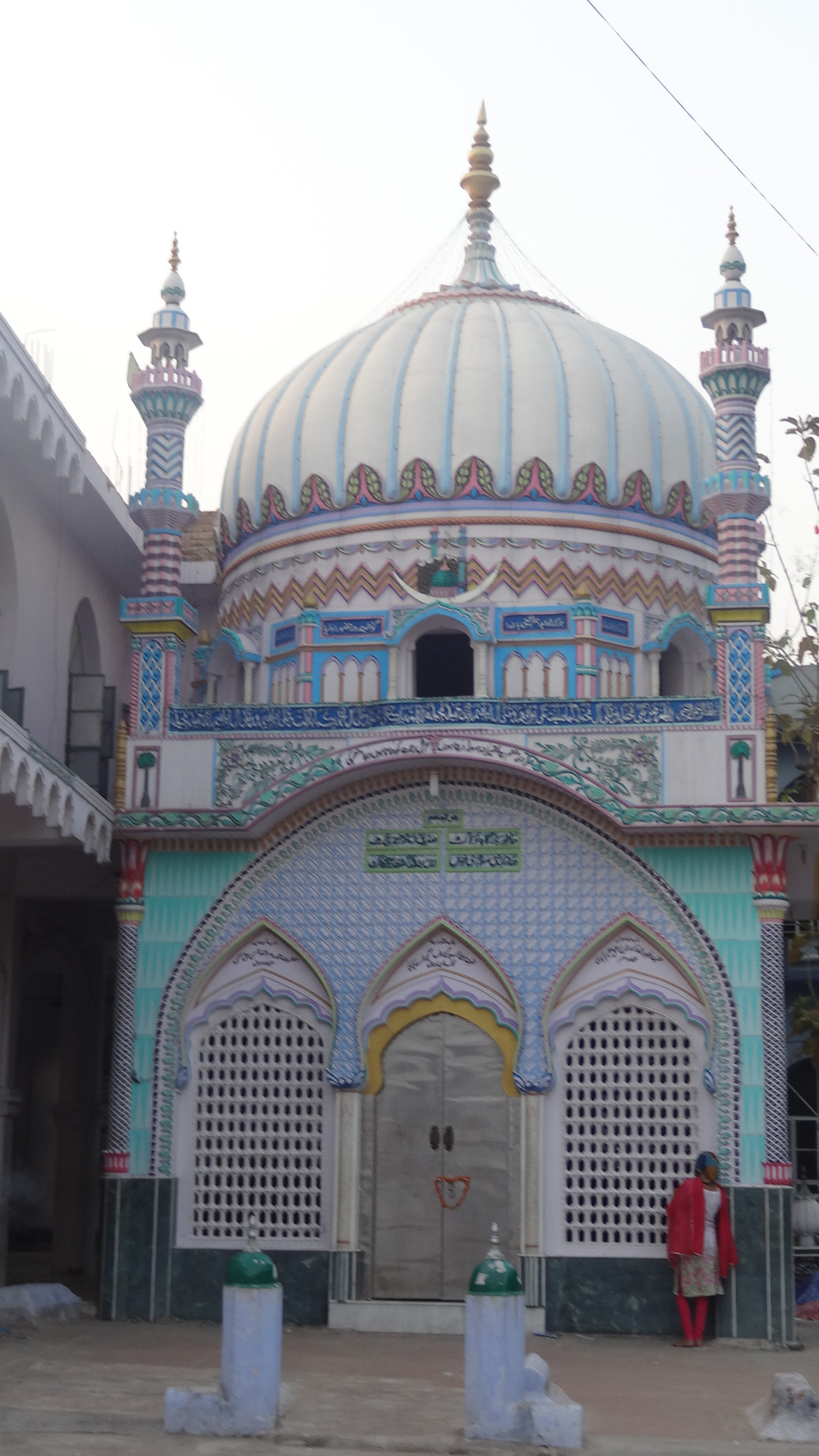 Dargha sharif Hazrat Makhdoom shah Mohammad Munim Pak